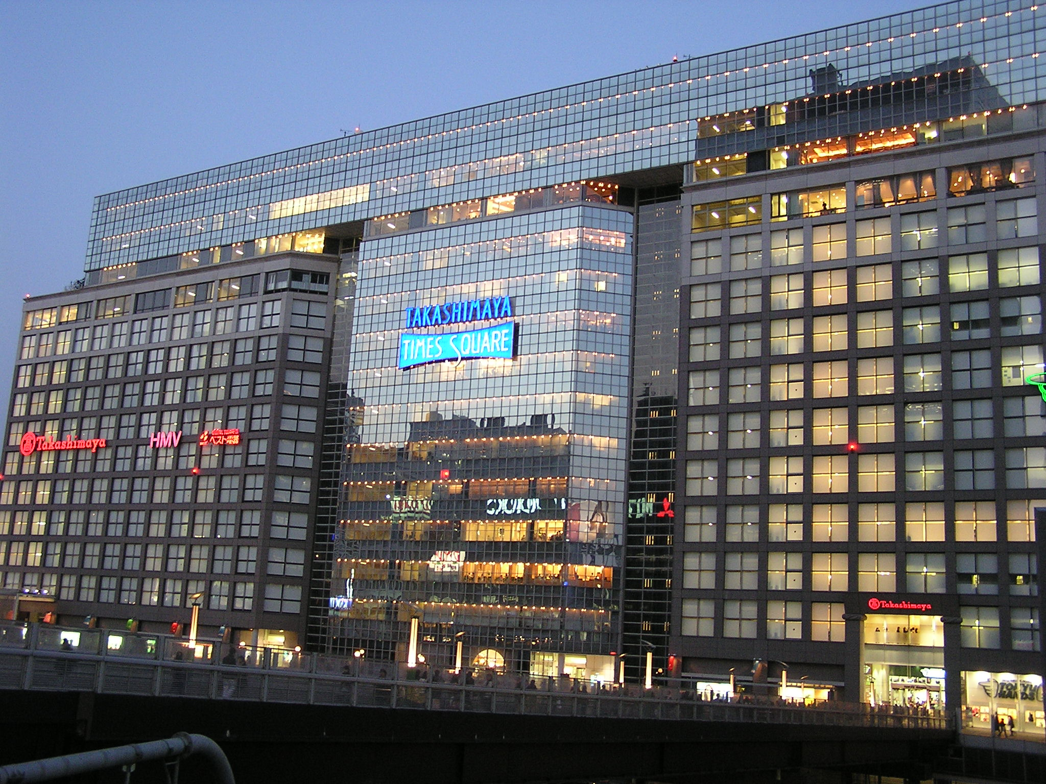 I took this photo in Spring 2006 of the Japanese department store, Takashimaya Times Square, in Sendagaya, Shibuya, Tokyo. I am putting it here in the commons for any to freely use.